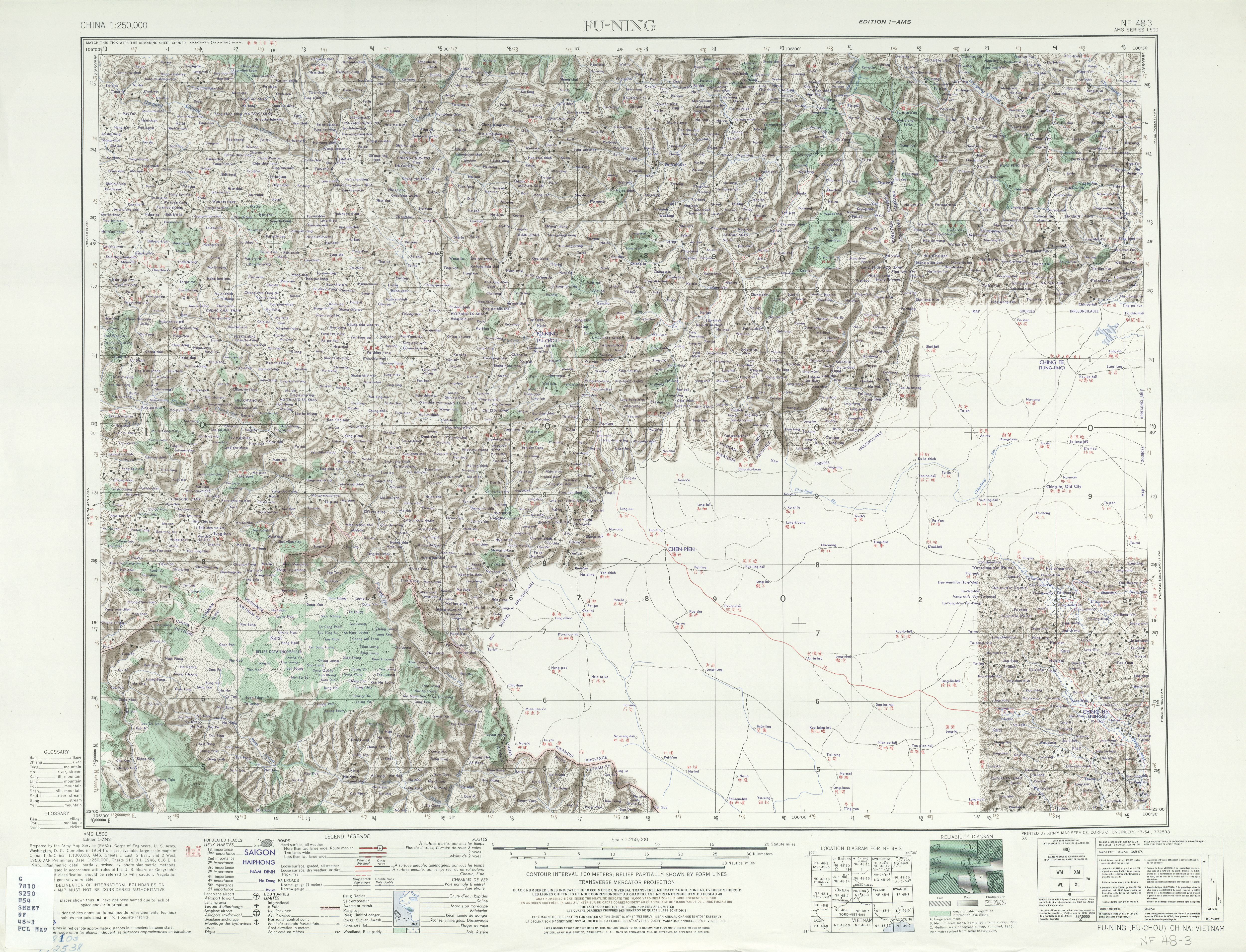 China AMS Topographic Maps series